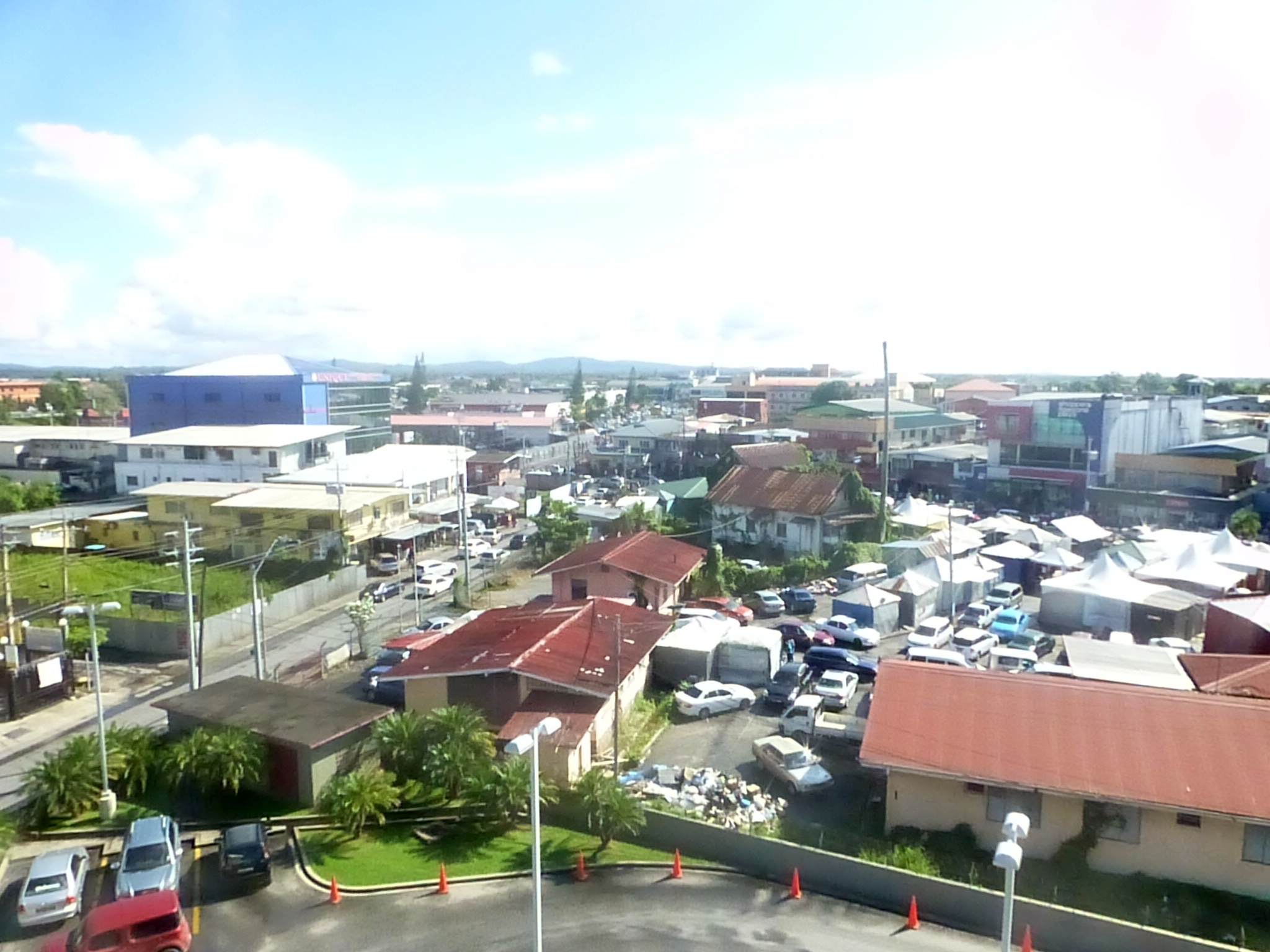 Chaguanas Main Road corner Mulchan Seuchan Road, Chaguanas, Trinidad and Tobago. Yeah, overexposed. Sorry.